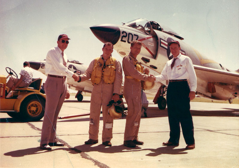 Delivery of U.S. Navy McDonnell F3H-2 Demon fighters. Naval aviator Wally Schirra (second from right) is shaking hands with David. S. Lewis, Jr. (far right), McDonnell design chief. Schirra later became one of the original Mercury 7 astronauts. Dave Lewis went on to become President of McDonnell and CEO of General Dynamics. Schirra and Lewis became close friends, especially during the Mercury program.